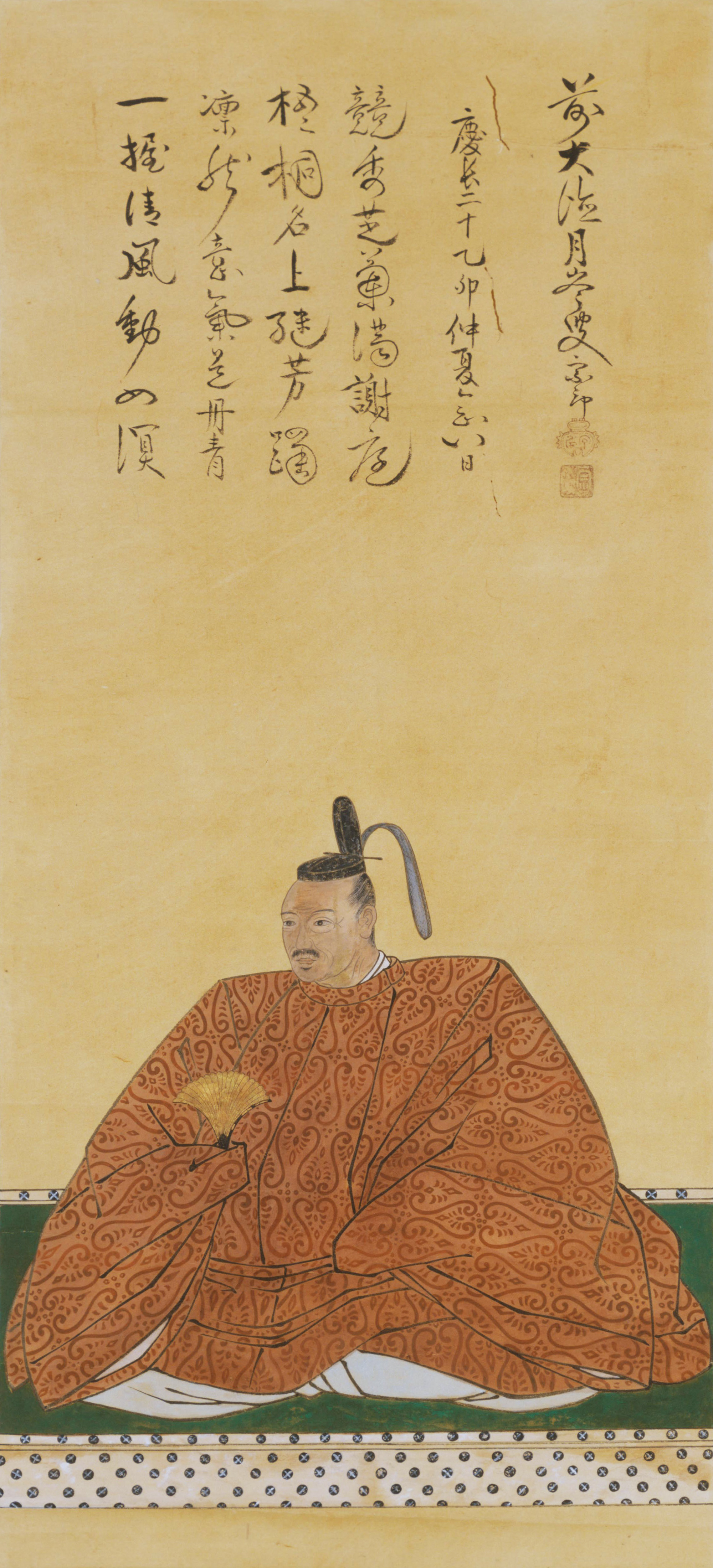 Katagiri Katumoto.